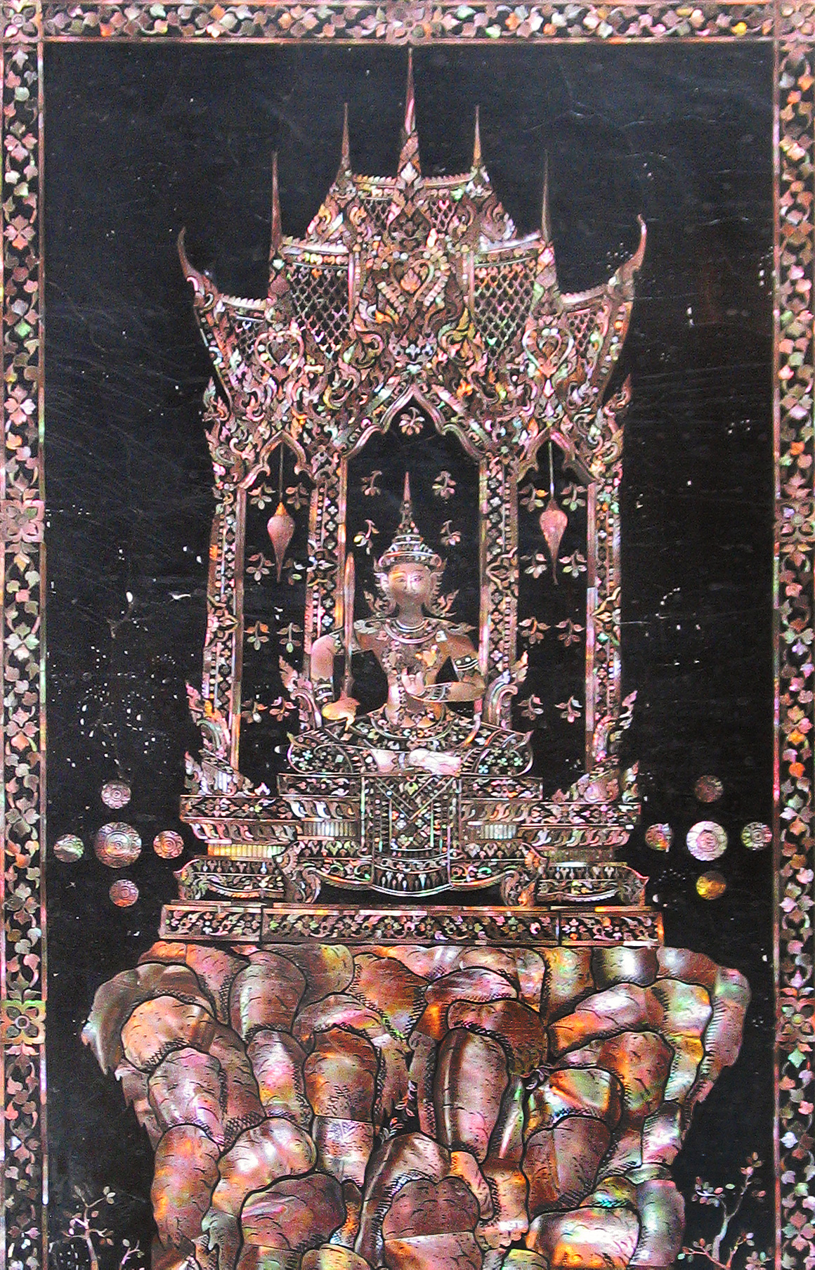 Indra's Palace on top of Mount Meru. Detail of Buddha's Footprint in Wat Pho, Bangkok, Thailand